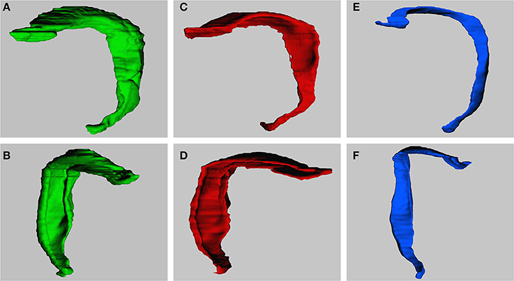 Dentate gyrus layers